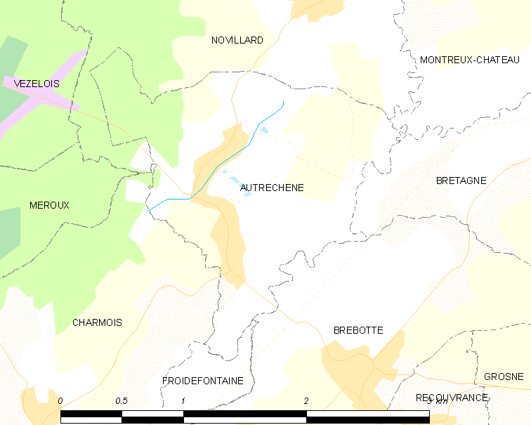 Map of French municipality Autrechêne